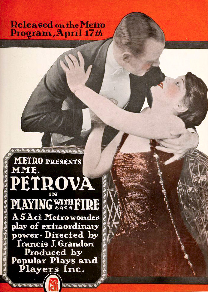 Advertisement for the 1916 film Playing With Fire. from the April 15, 1916 edition of Motion Picture News.